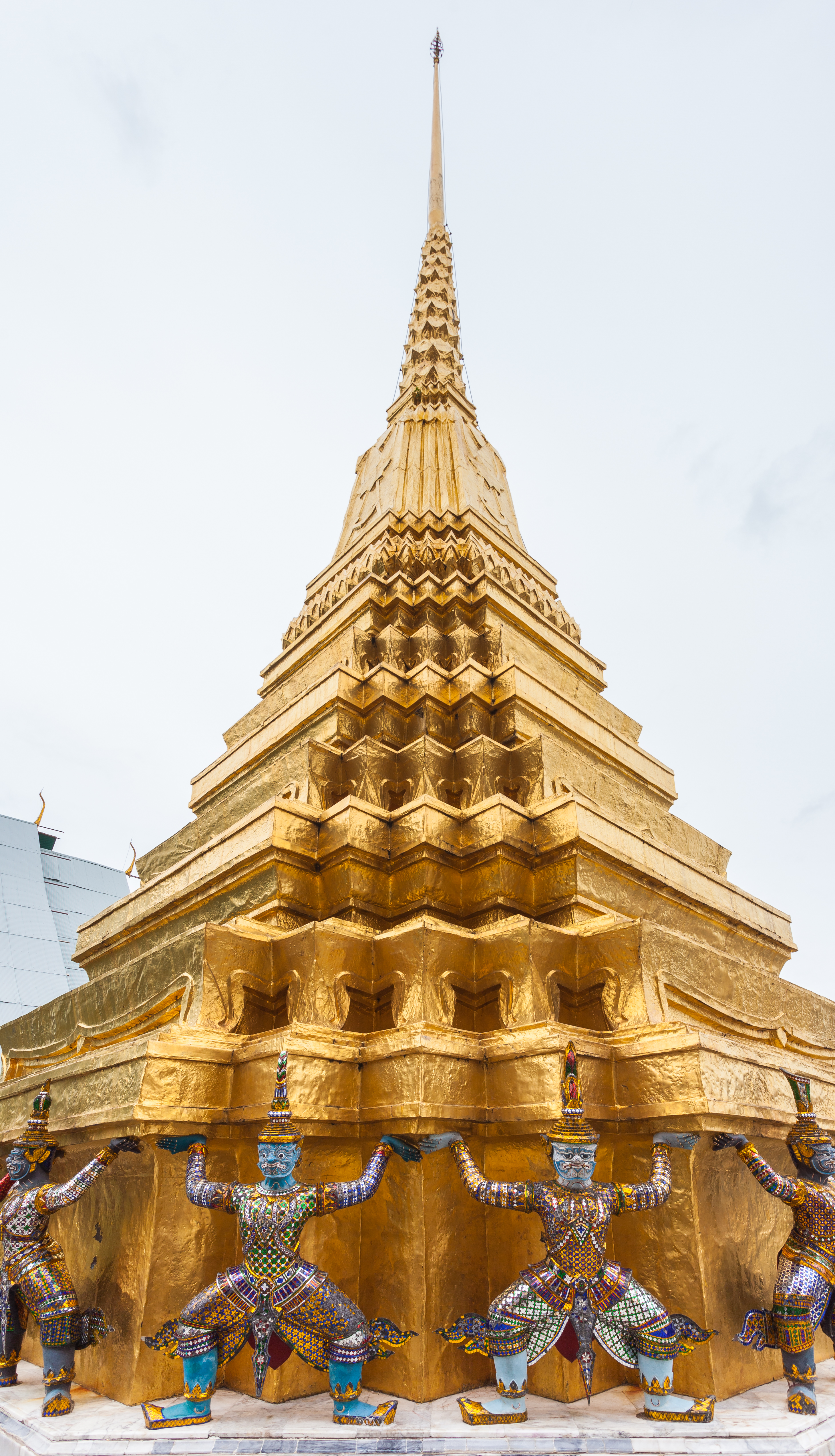 Grand Palace, Bangkok, Thailand